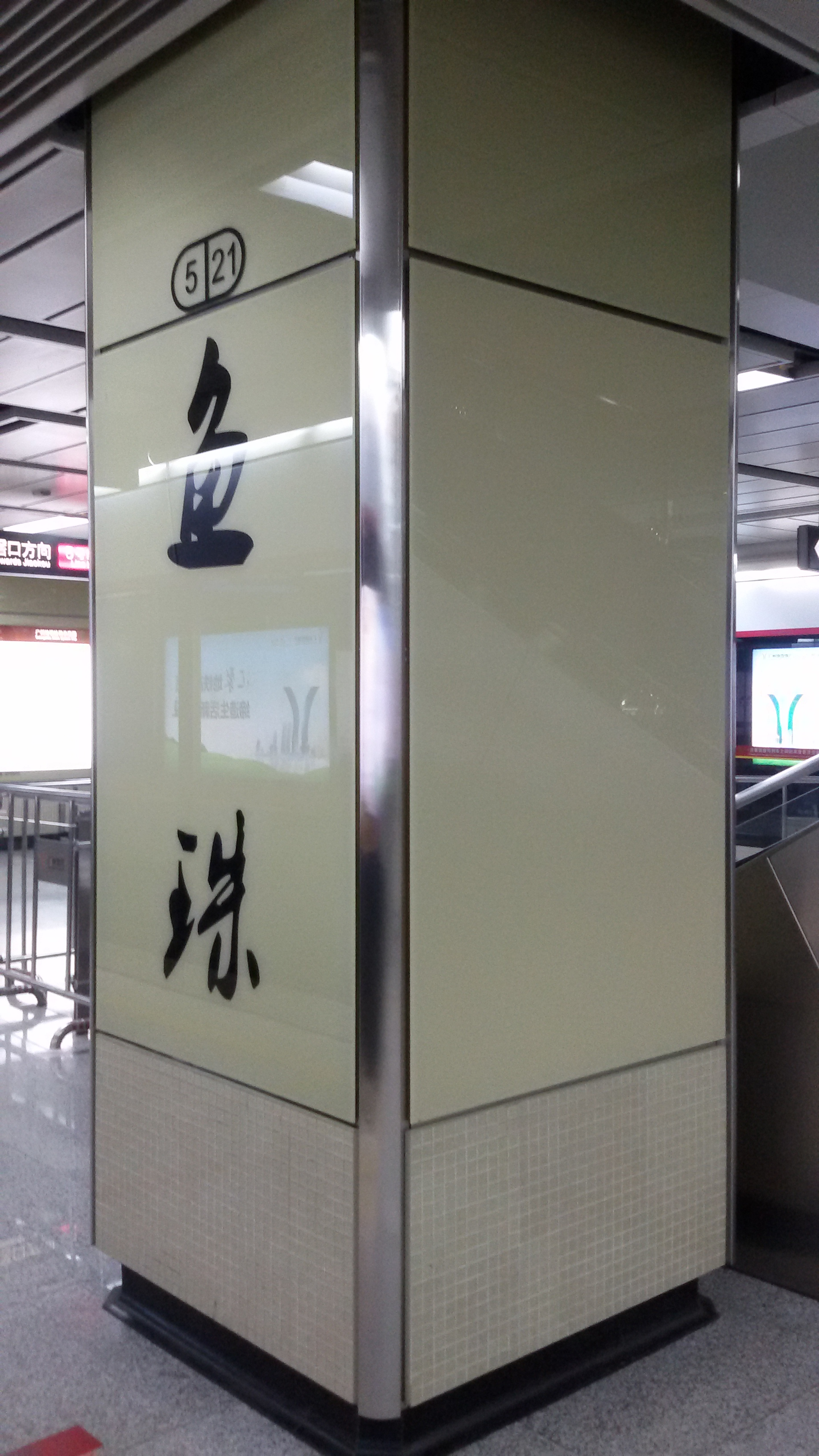 WORD on PILLAR for Yuzhu Station at Line 5 in Guangzhou Metro